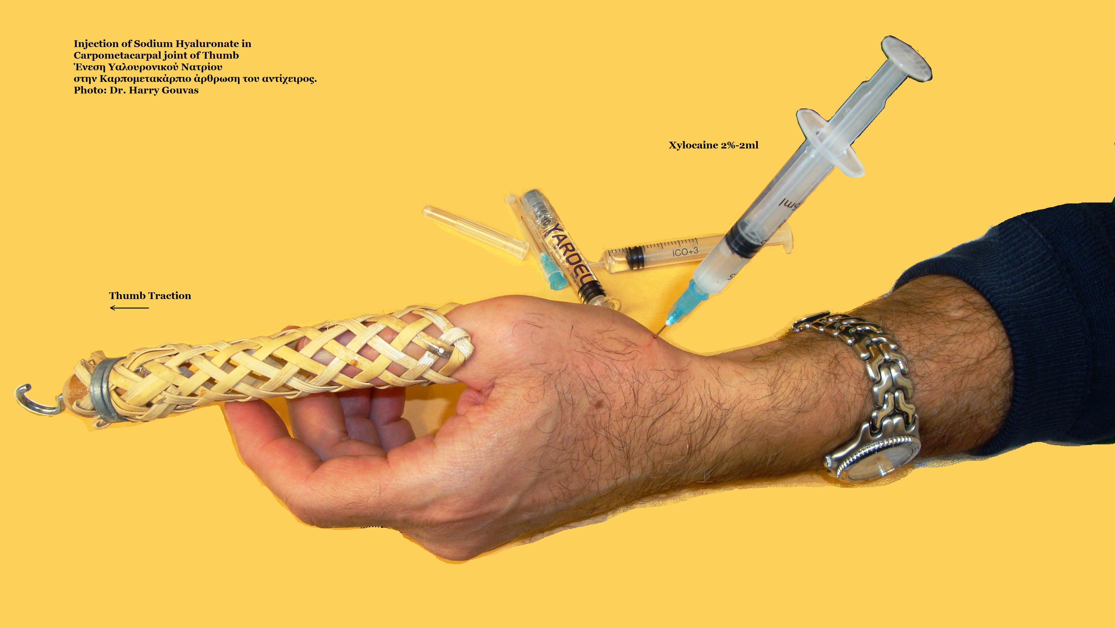 Injection in thumb